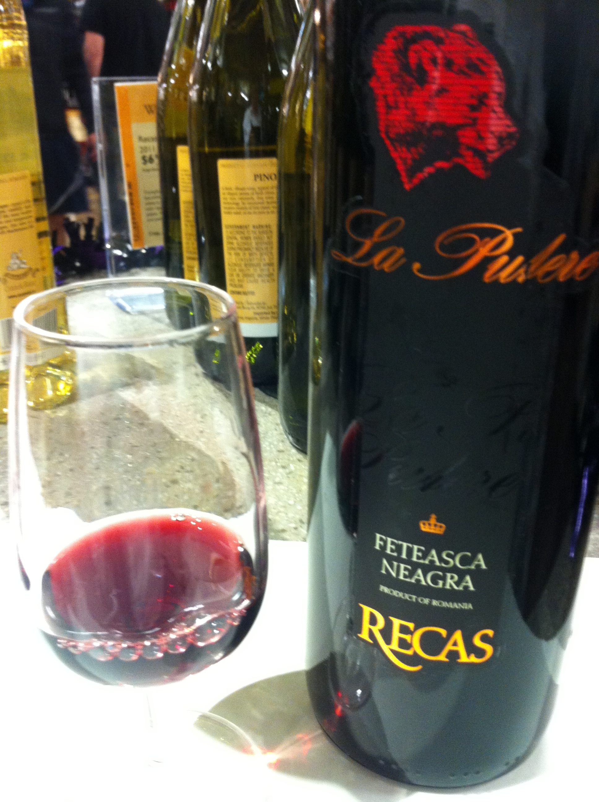 Red Romania wine from Transylvania made from the Feteasca Negra grape.